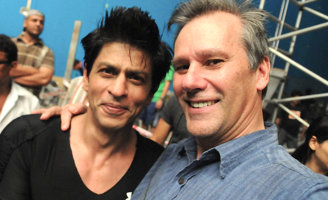 A photograph depicting Jeffrey Kleiser and Shahrukh Khan while filming Ra.One